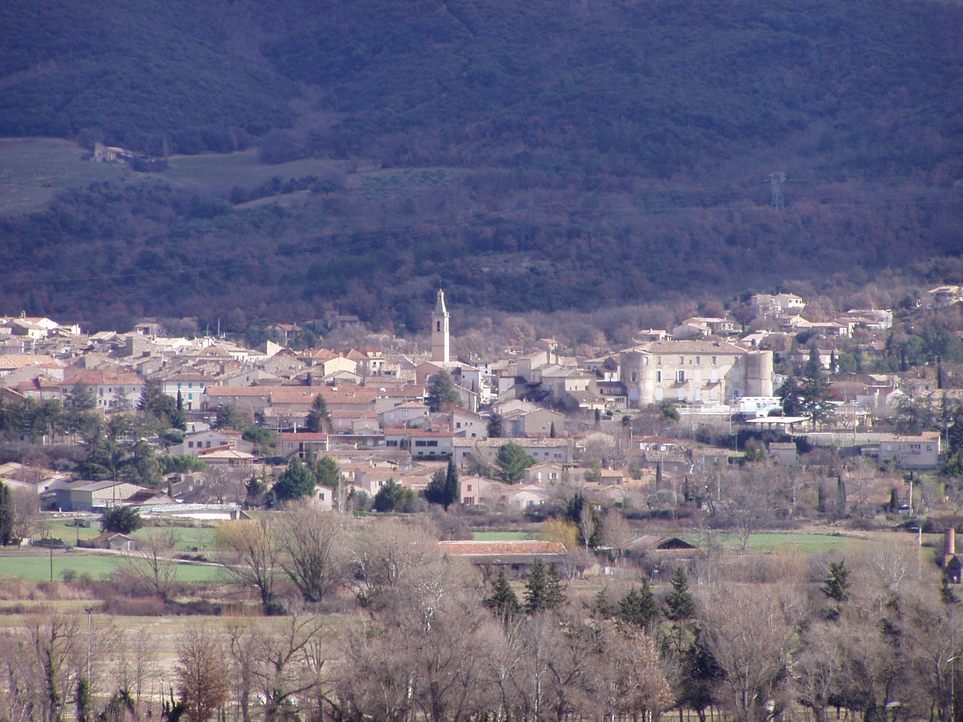 The city of Oraison, seen of the village of La Brillanne